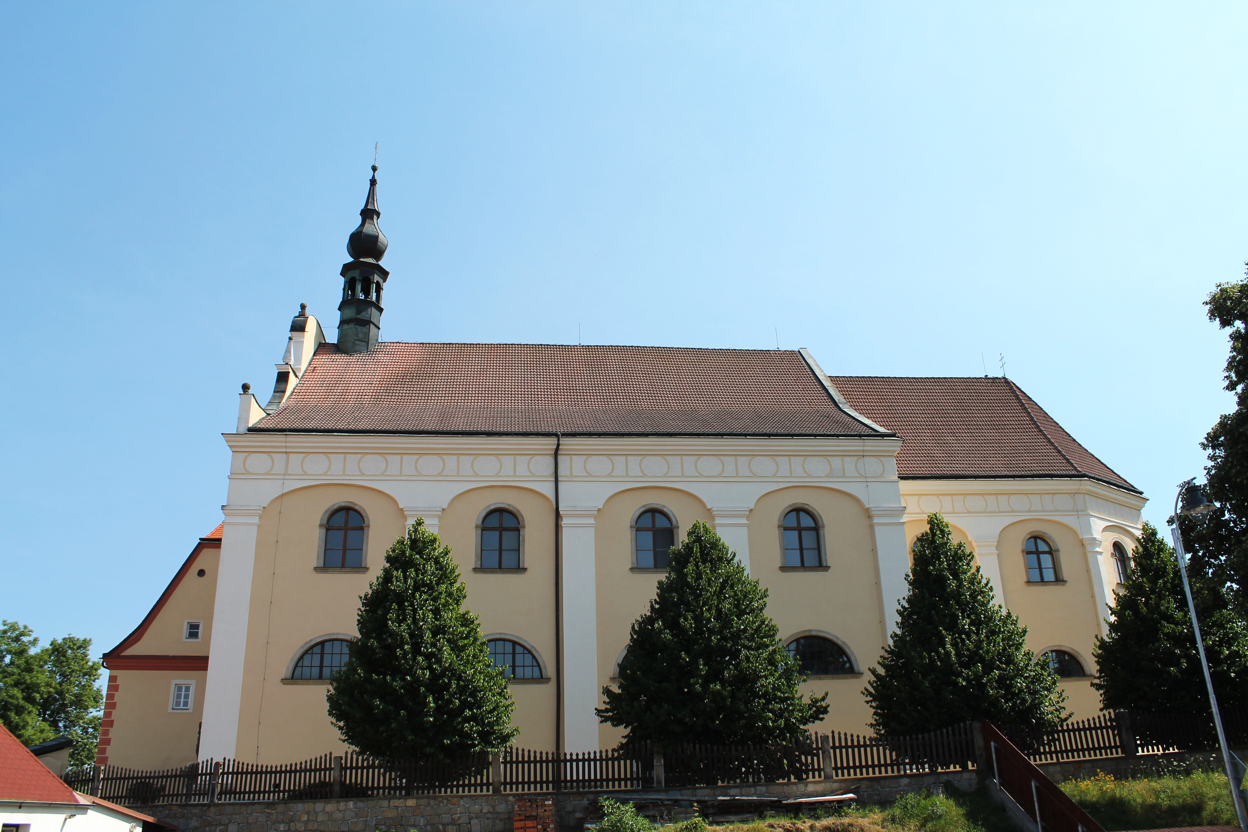 Church of St. Anthony of Padua, Dačice, Jindřichův Hradec District, Czech Republic - OpenStreetMap (Info)